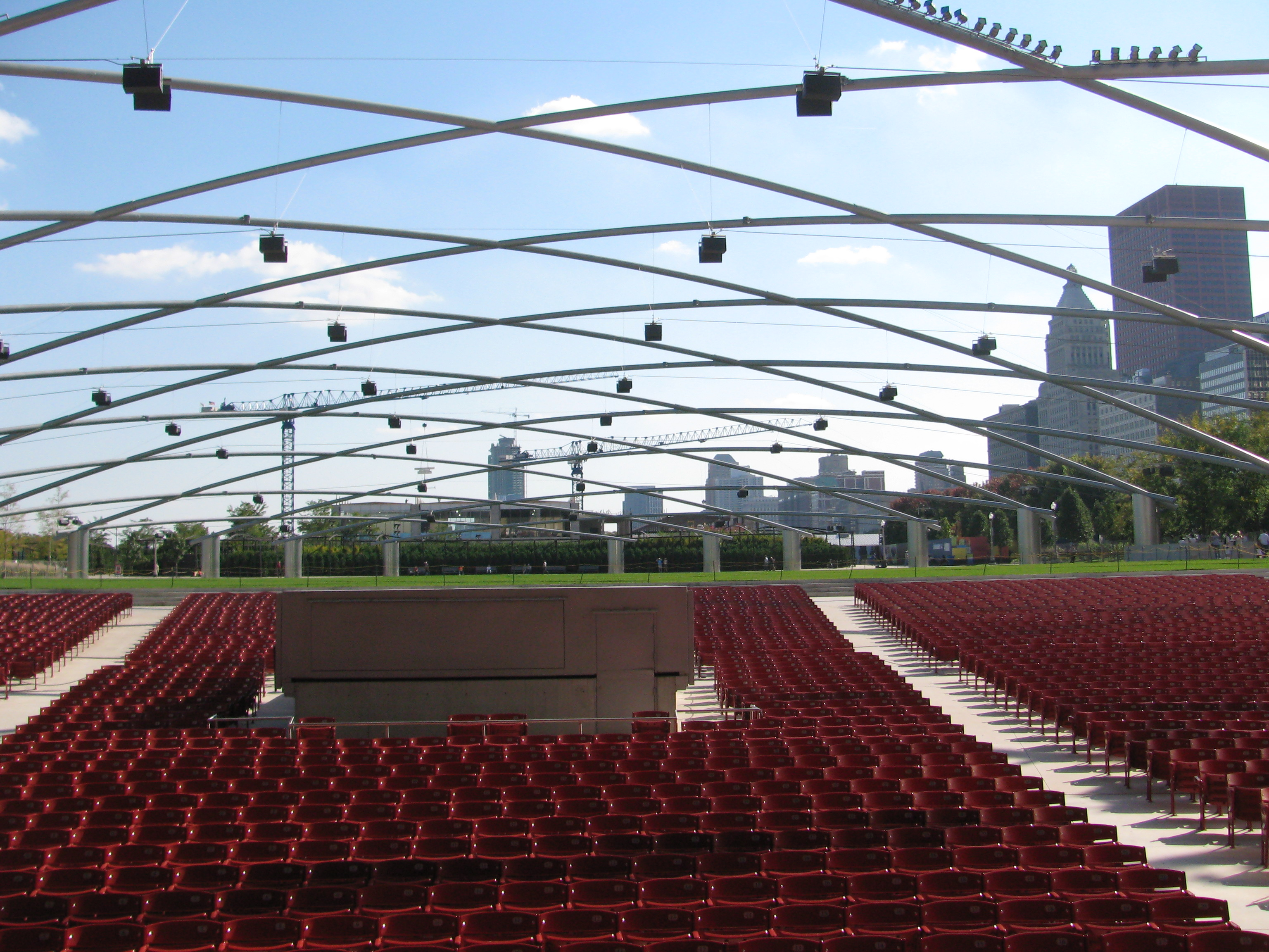 Jay Pritzker Pavilion, Chicago